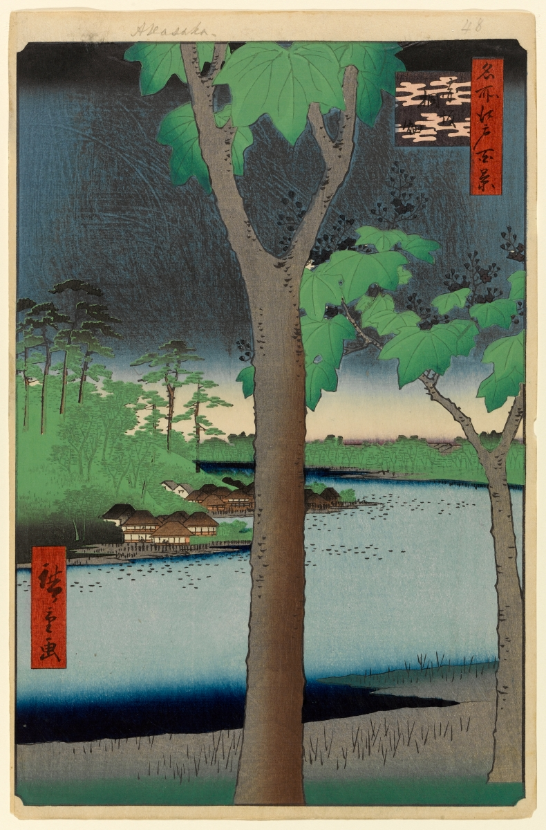 Part of the series One Hundred Famous Views of Edo, no. 052, part 2: Summer.